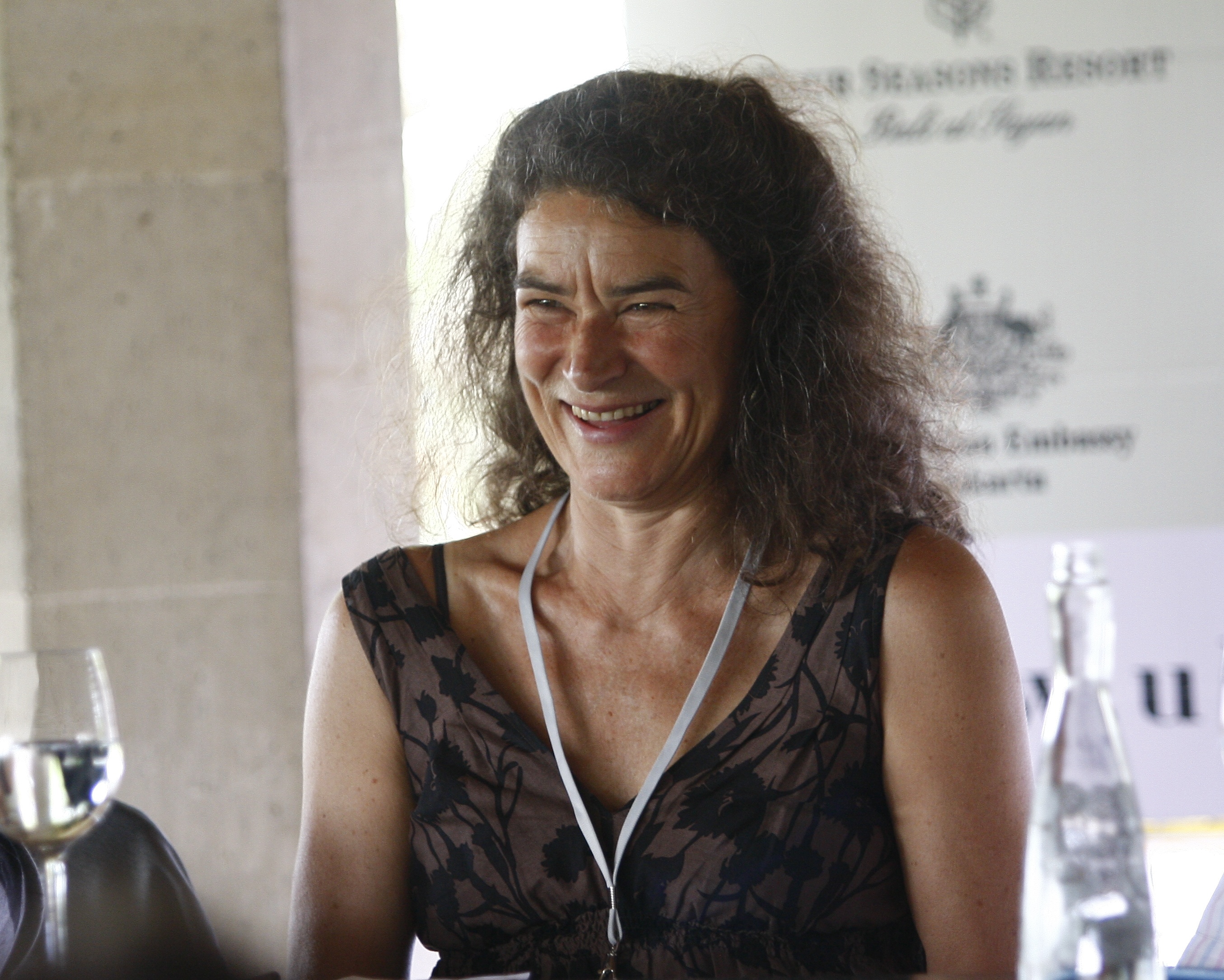 Ubud Writers & Readers Festival 2012. Image credit Stanny Angga.